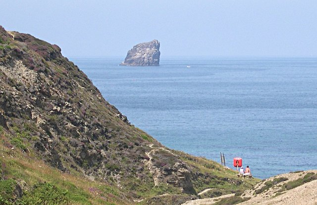 Bawden Rocks from Trevellas Coombe. These offshore rocks, although 2 to 3 kilometres from this point are an impressive sight from the mouth of the valley.